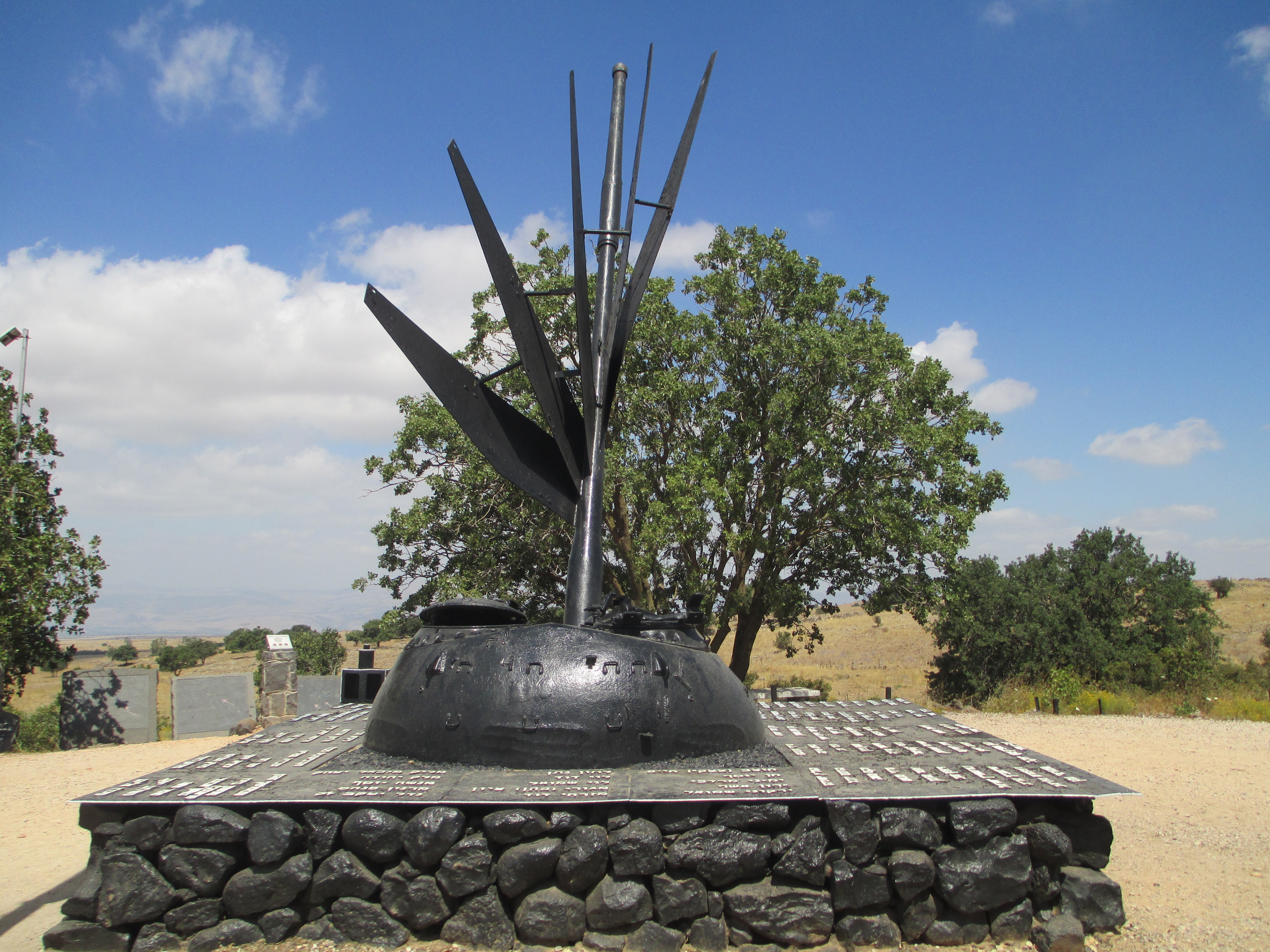 679 Armored Brigade Memorial in Golan Heights